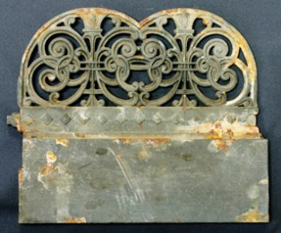 Pequot Library baseboard before restoration